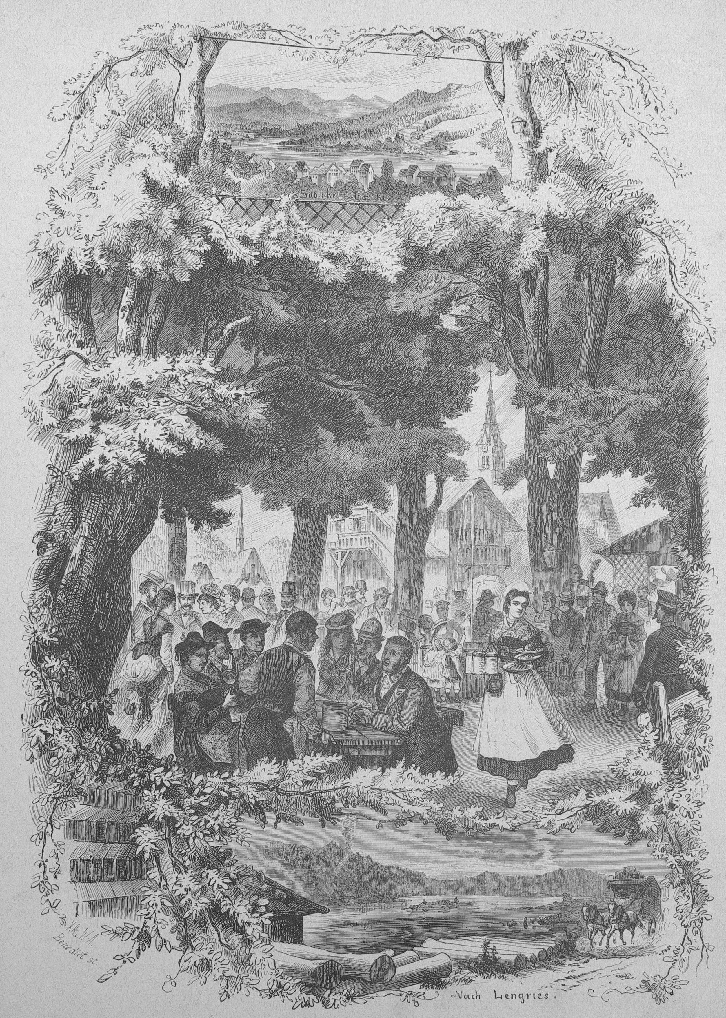 caption: "Bilder aus Tölz. Originalzeichnung von G. Sundblad."